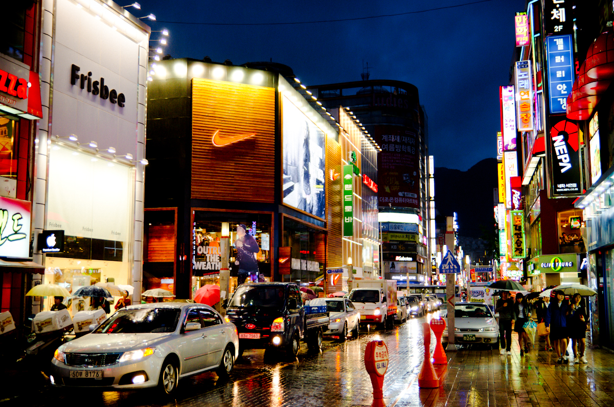 Night at Seomyeon, Busan, South Korea. Photograph from Flickr; author Carey Ciuro; license of cc-by-2.0.